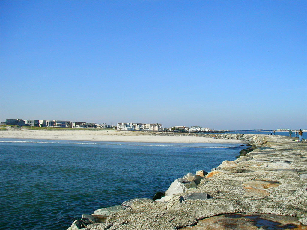 Avalon, New Jersey